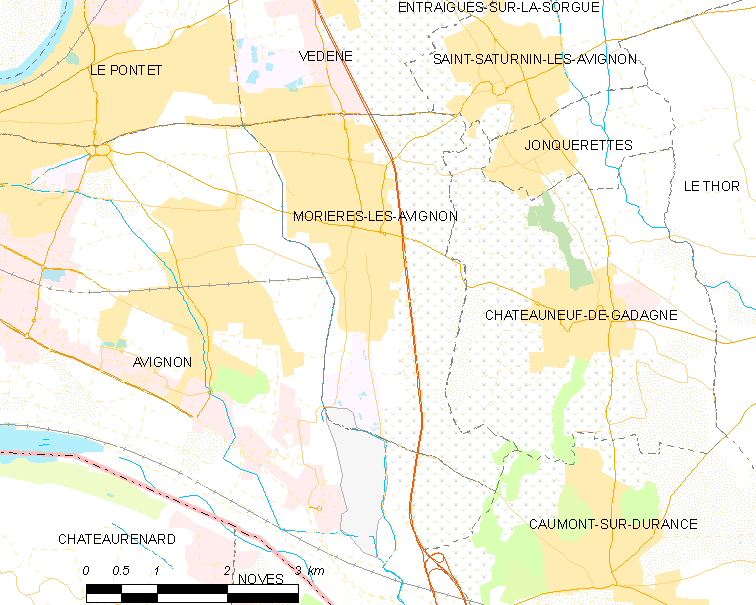 Map of French municipality Morières-lès-Avignon